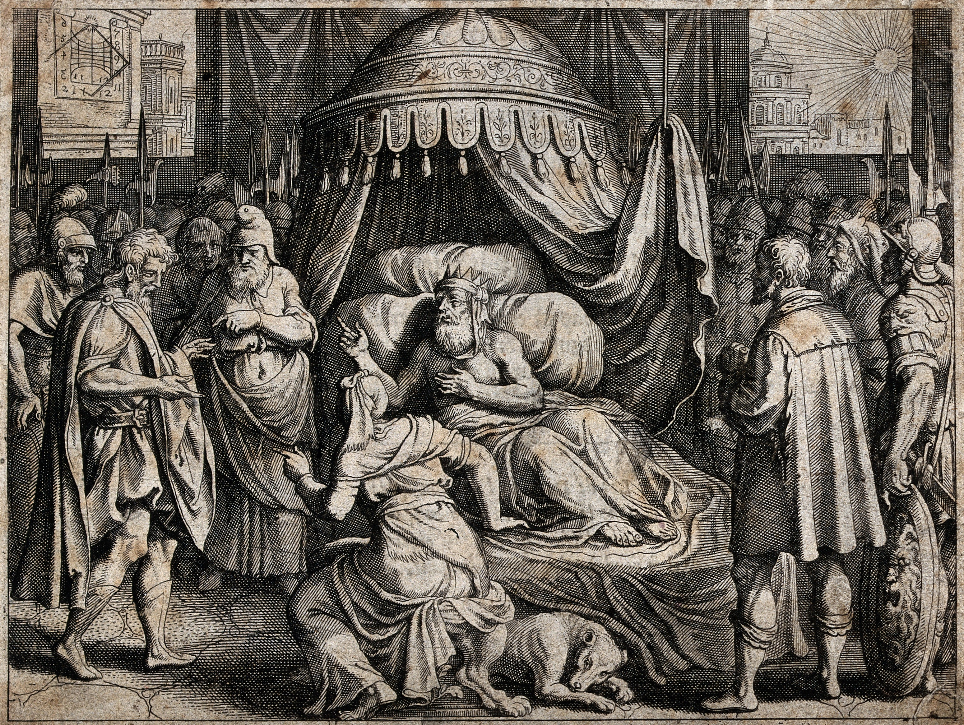 Hezekiah lies ailing in bed, surrounded by anxious soldiers and ministers. Engraving. Iconographic Collections Keywords: Hezekiah; Isaiah